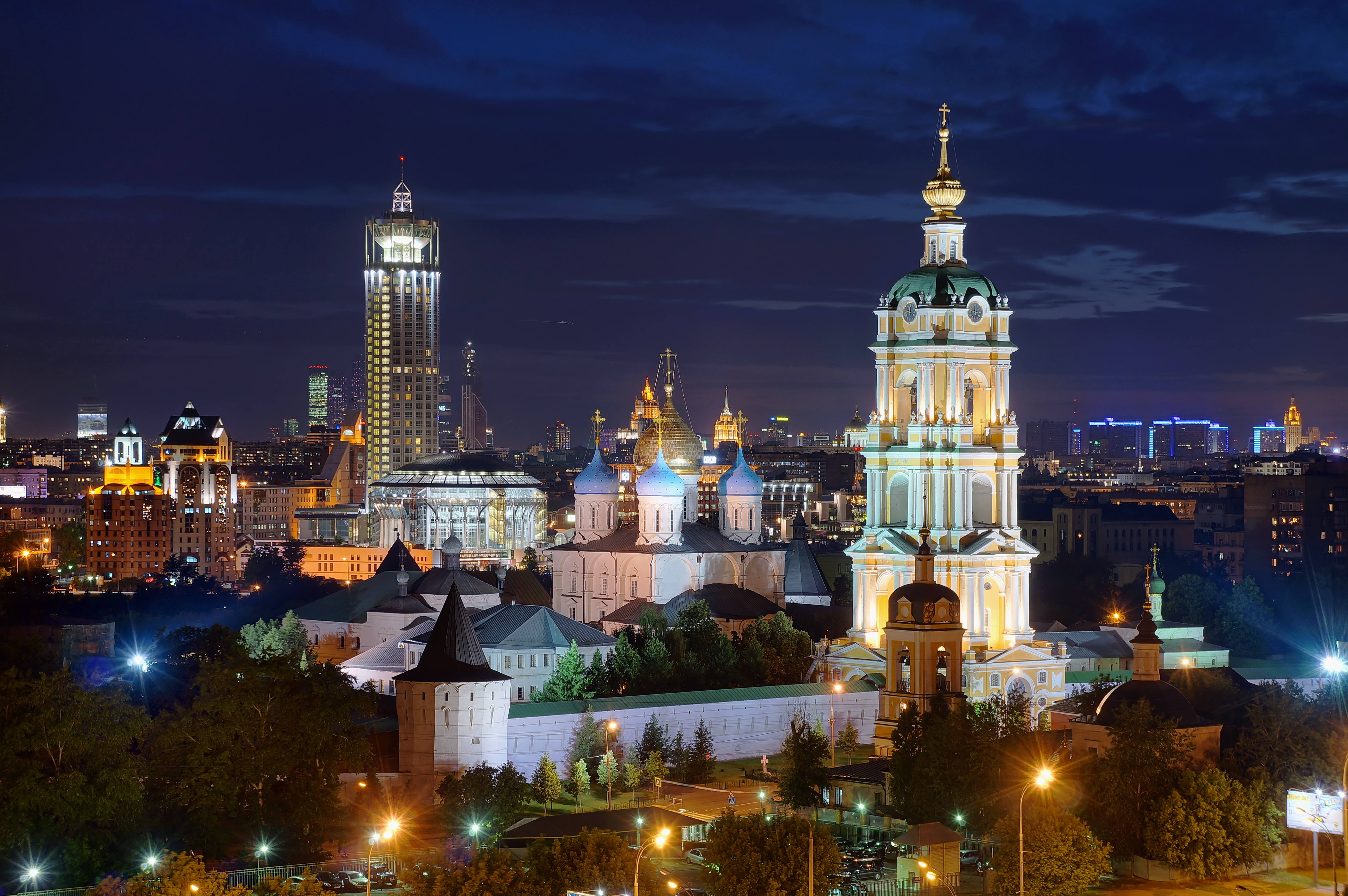 Night view of the Novospassky Monastery in Moscow, Russia. HDRI of 3 shots with a total exposure time of 51 sec.